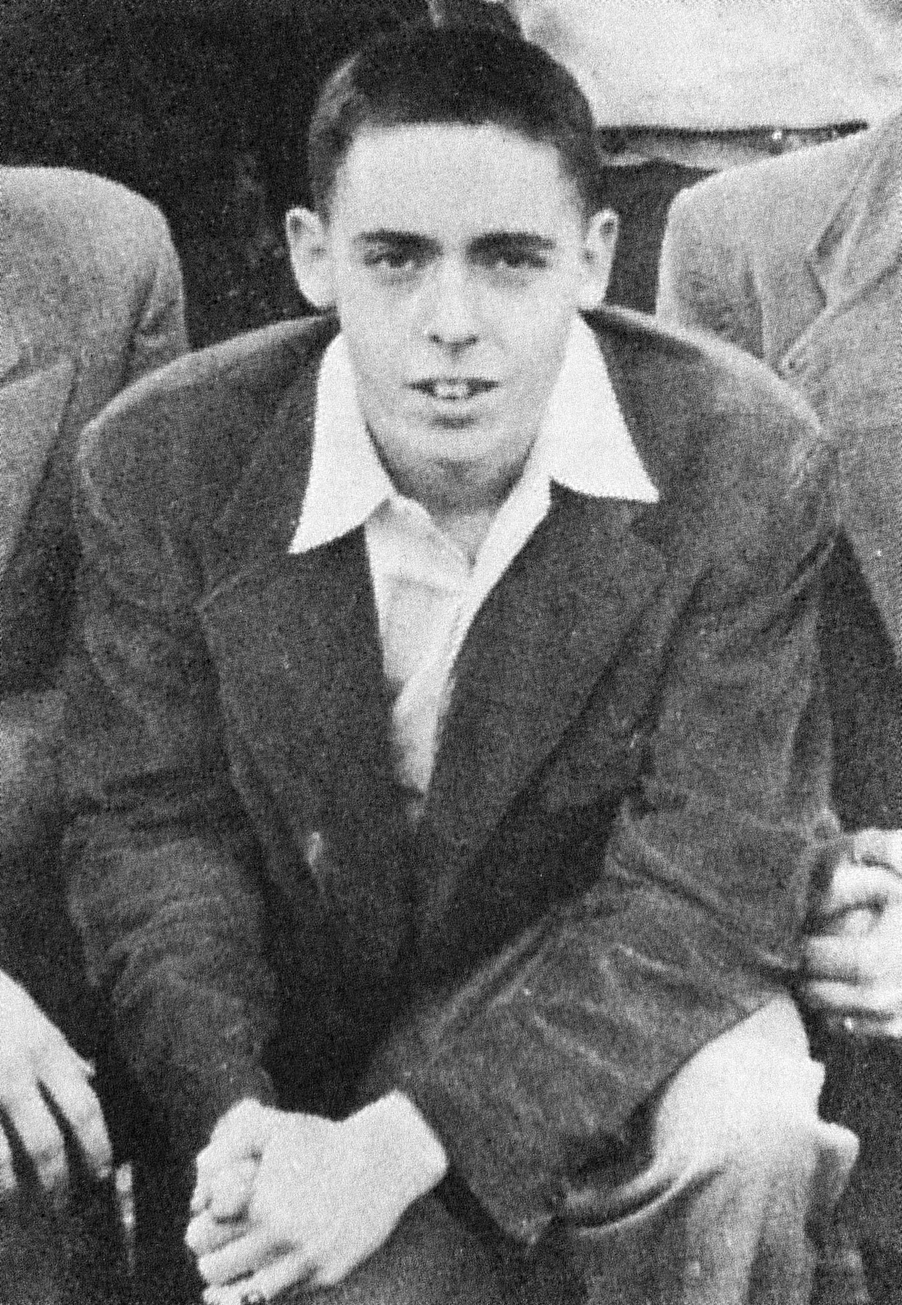 Portrait of American author Thomas Pynchon as a high school senior, age 16, at Oyster Bay High School. The image is cropped from a group photo of the staff of the school's yearbook, The Oysterette, of which Pynchon was the editor.